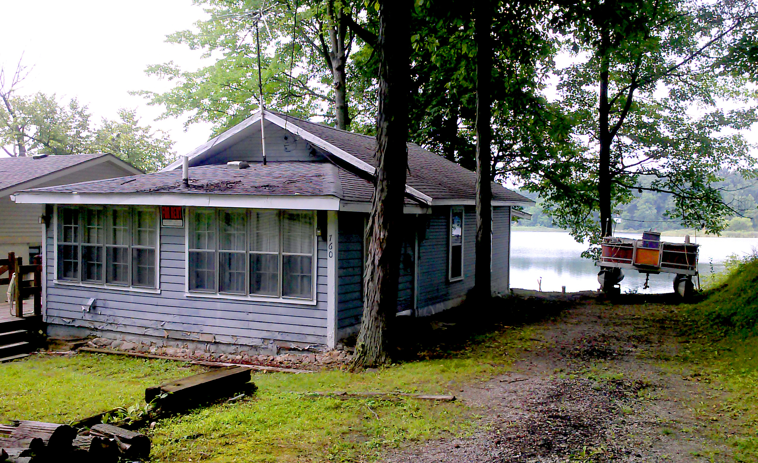 The westernmost of the 27 buildings in the Fox Lake Resort historic district. The district is on the National Register of Historic Places, and is located southwest of Angola, Indiana.